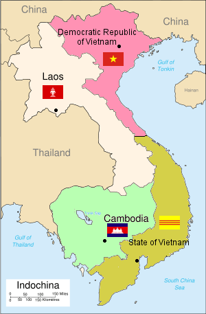 French Indochina's successor states following the 1954 Geneva Conference. The four dots are the capitals of Hanoi, Saigon, Phnom Penh, and Vientiane.